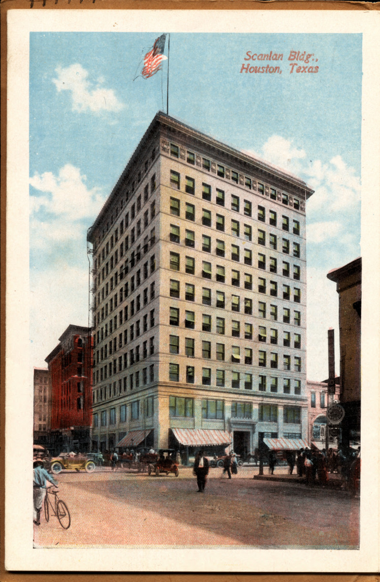 Scanlan Building, Houston, Texas, US National Register of Historic Places